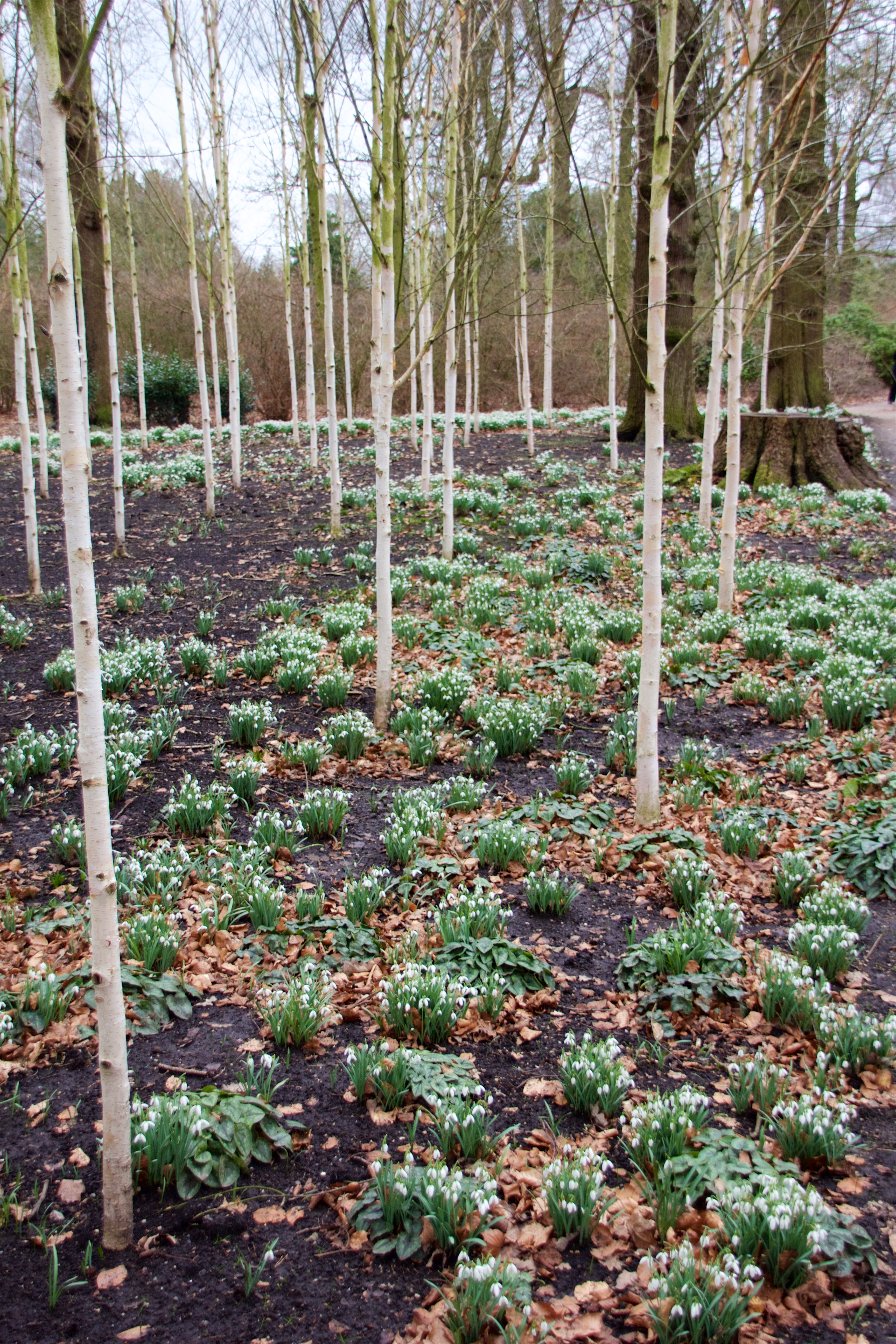 Dunham Massey gardens, Greater Manchester, UK.